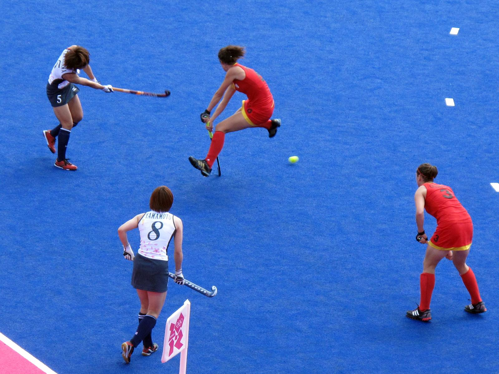 Japan v Belgium, Women's Olympic Hockey at London 2012